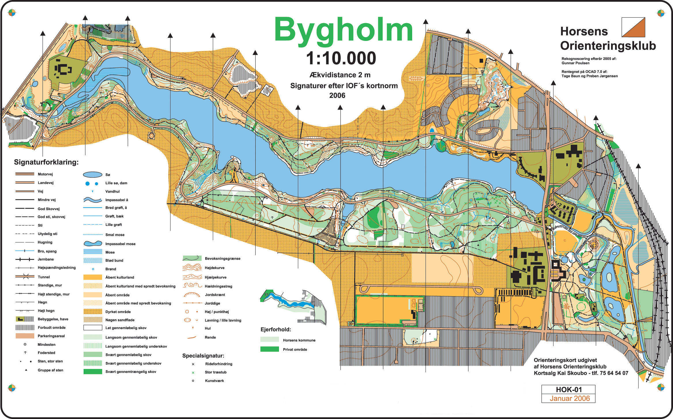 Orienteering map of "Bygholm Skov" just outside Horsens, Denmark. Map uploaded with permission from Horsens Orienteringsklub, c/o chairman Lars Sørensen.